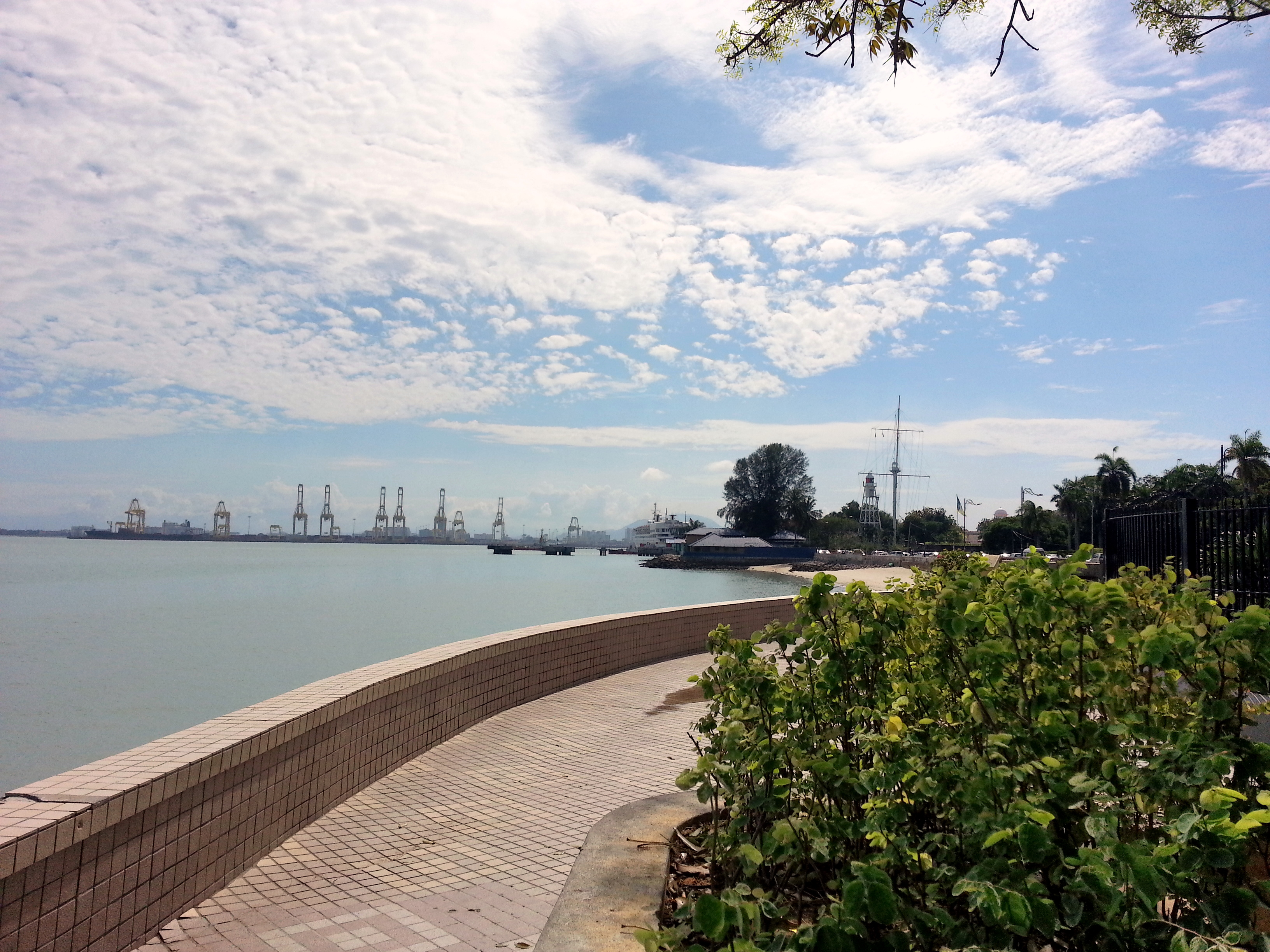 The Esplanade in George Town, Penang